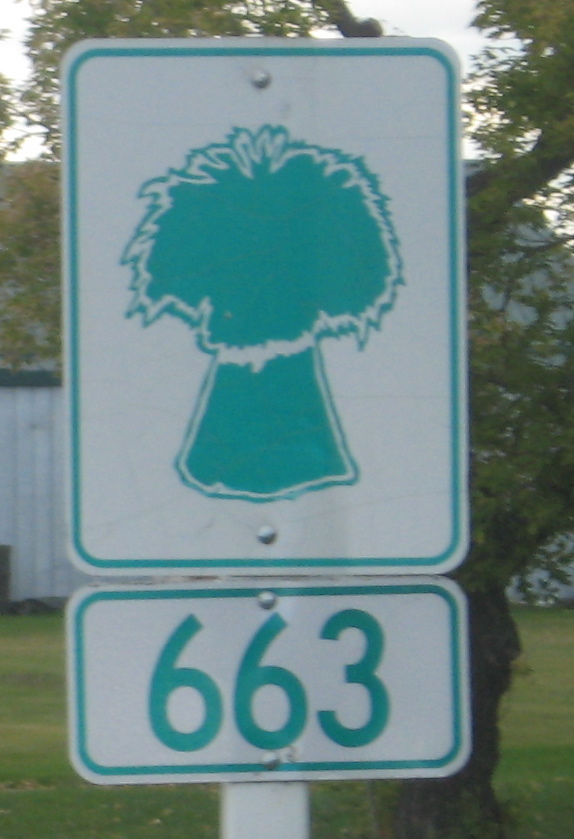 A Route 663 marker near the end of old Highway 11, outside Saskatoon, Saskatchewan. Shot September 2008